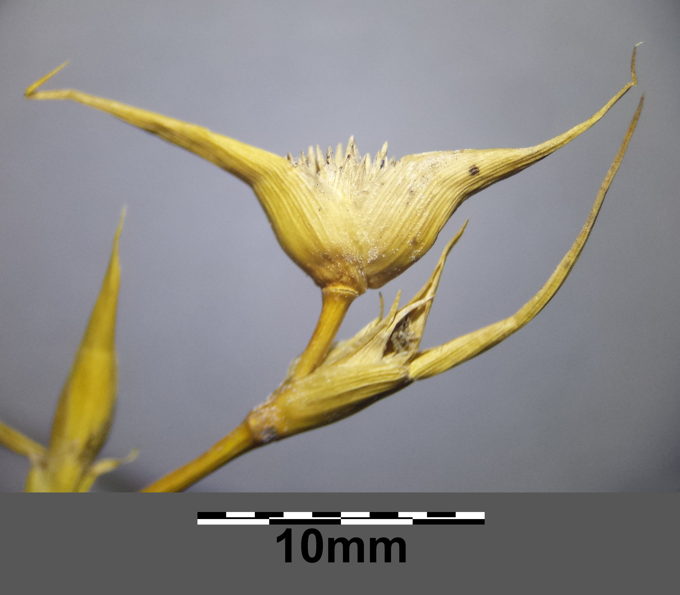 Stem with leaf sheaths and panicles Taxonym: Crypsis aculeata ss Fischer et al. EfÖLS 2008 ISBN 978-3-85474-187-9 Location: Legerilacke next to Podersdorf, district Neusiedl am See, Burgenland, Austria - ca. 120 m a.s.l. Habitat: dried-out small salt lake